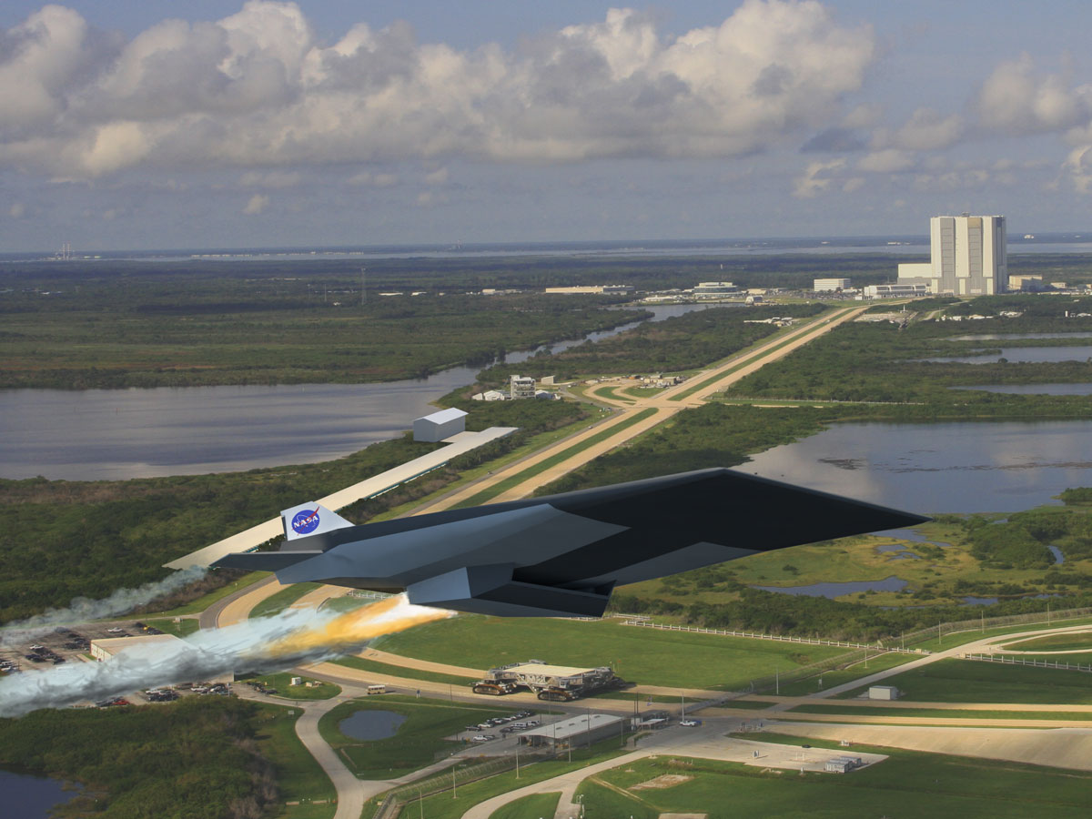 This artist's concept shows a potential design for a rail-launched aircraft and spacecraft that could revolutionize the launch business. Early designs envision a 2-mile-long track at Kennedy Space Center shooting a Mach 10-capable carrier aircraft to the upper reaches of the atmosphere. then a second stage booster would fire to lift a satellite or spacecraft into orbit.